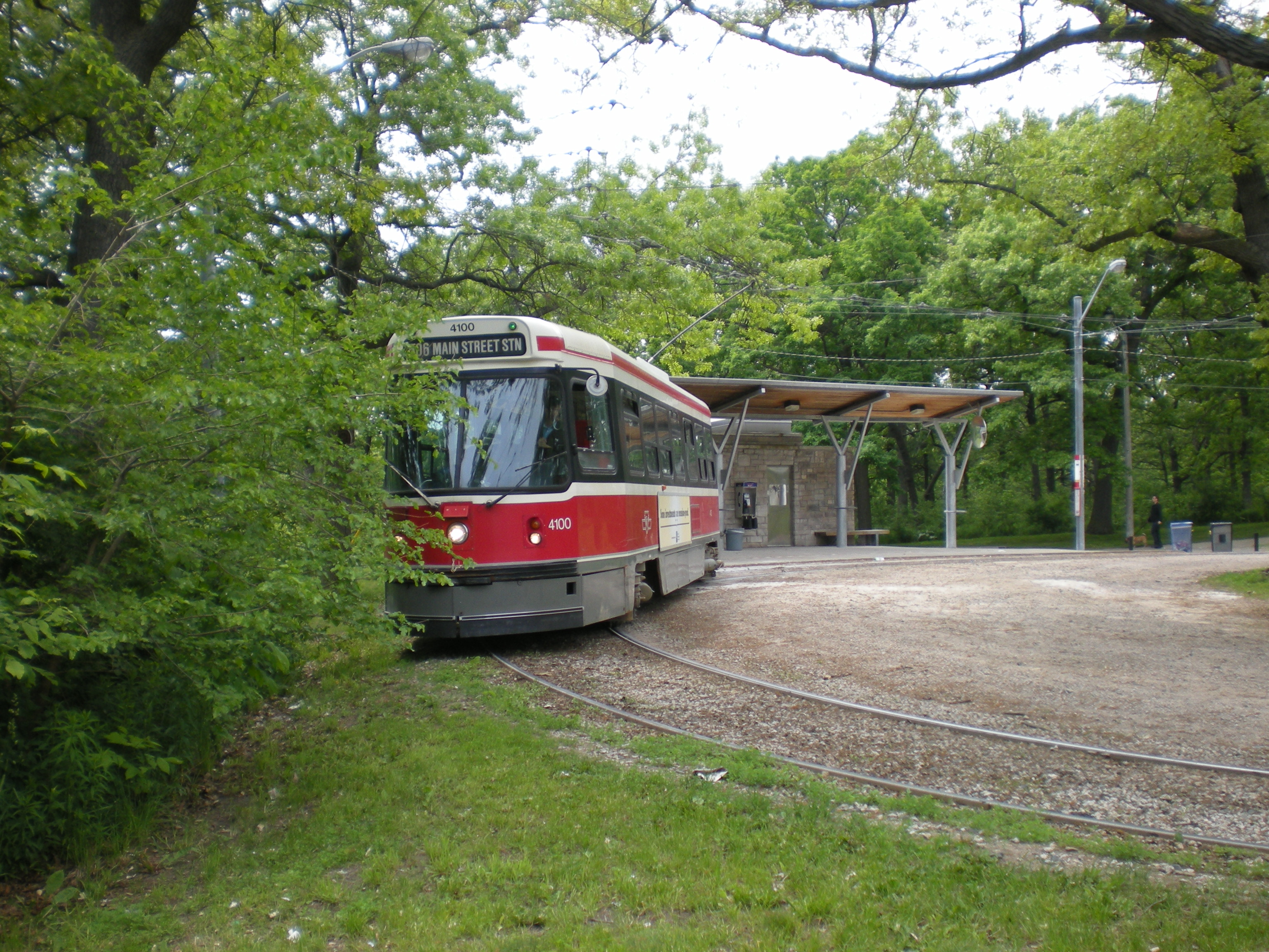 CLRV #4100 departs High Park Loop